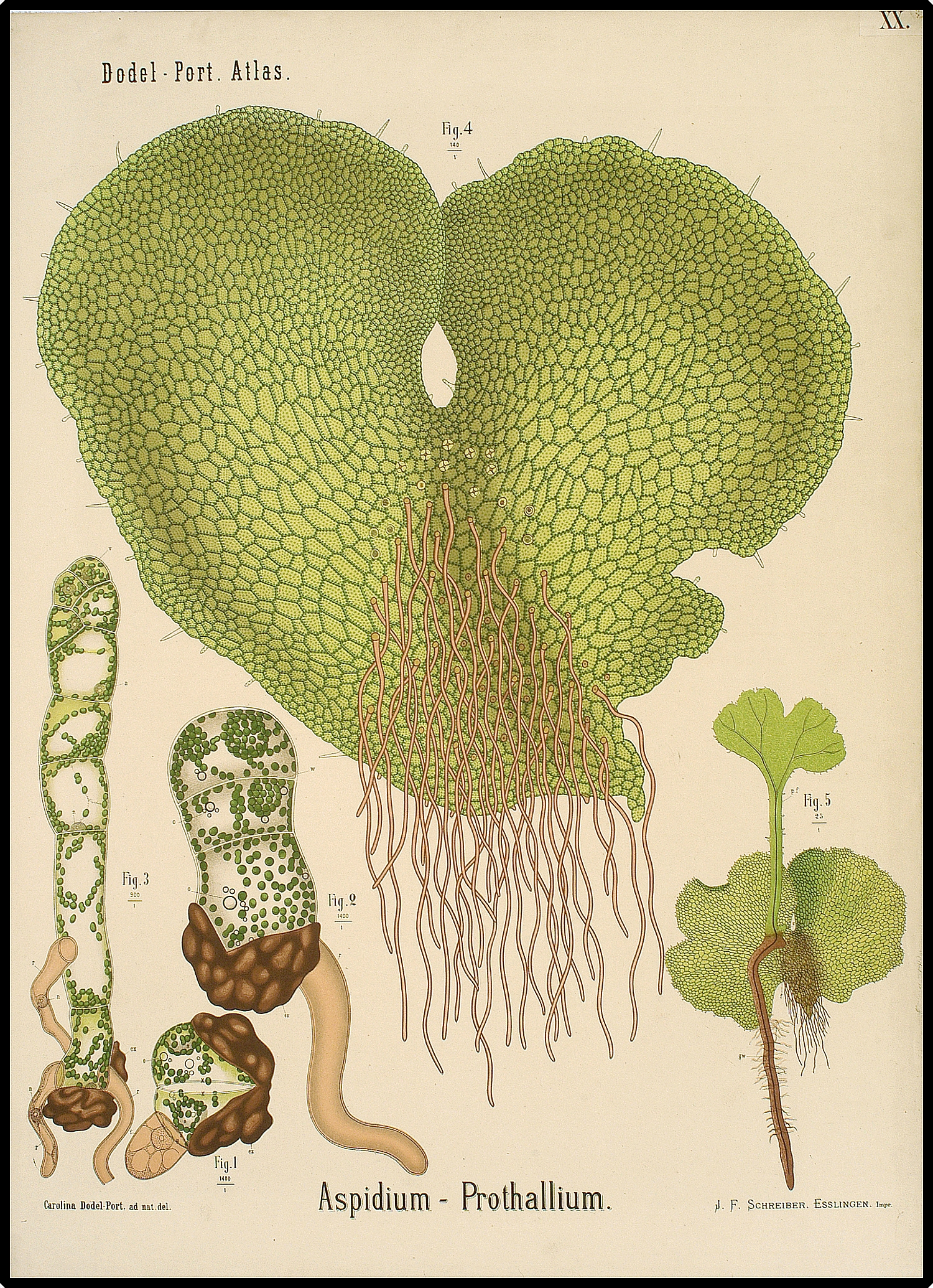 For background and links, please see